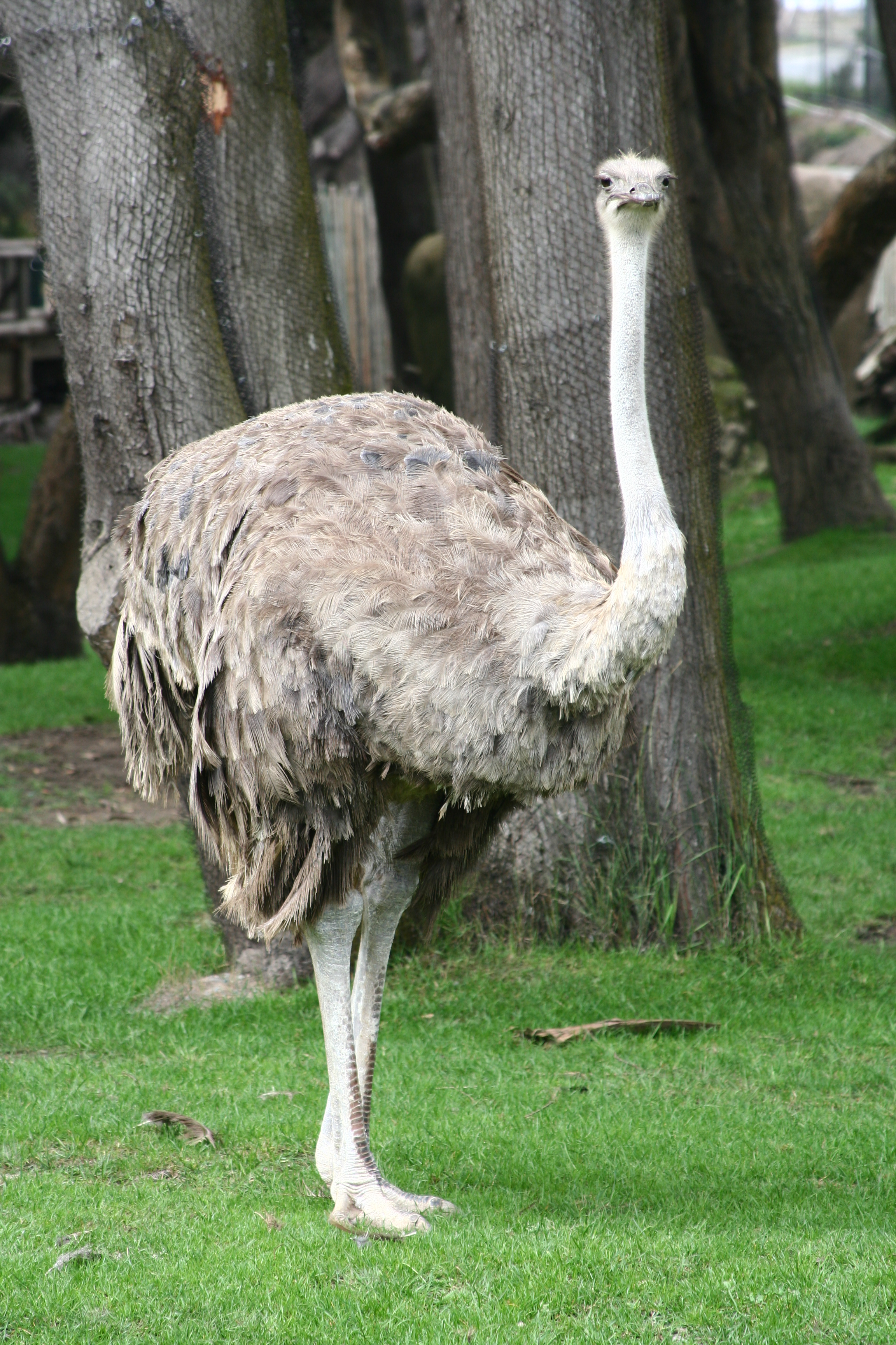 Female Ostrich @ SF Zoo